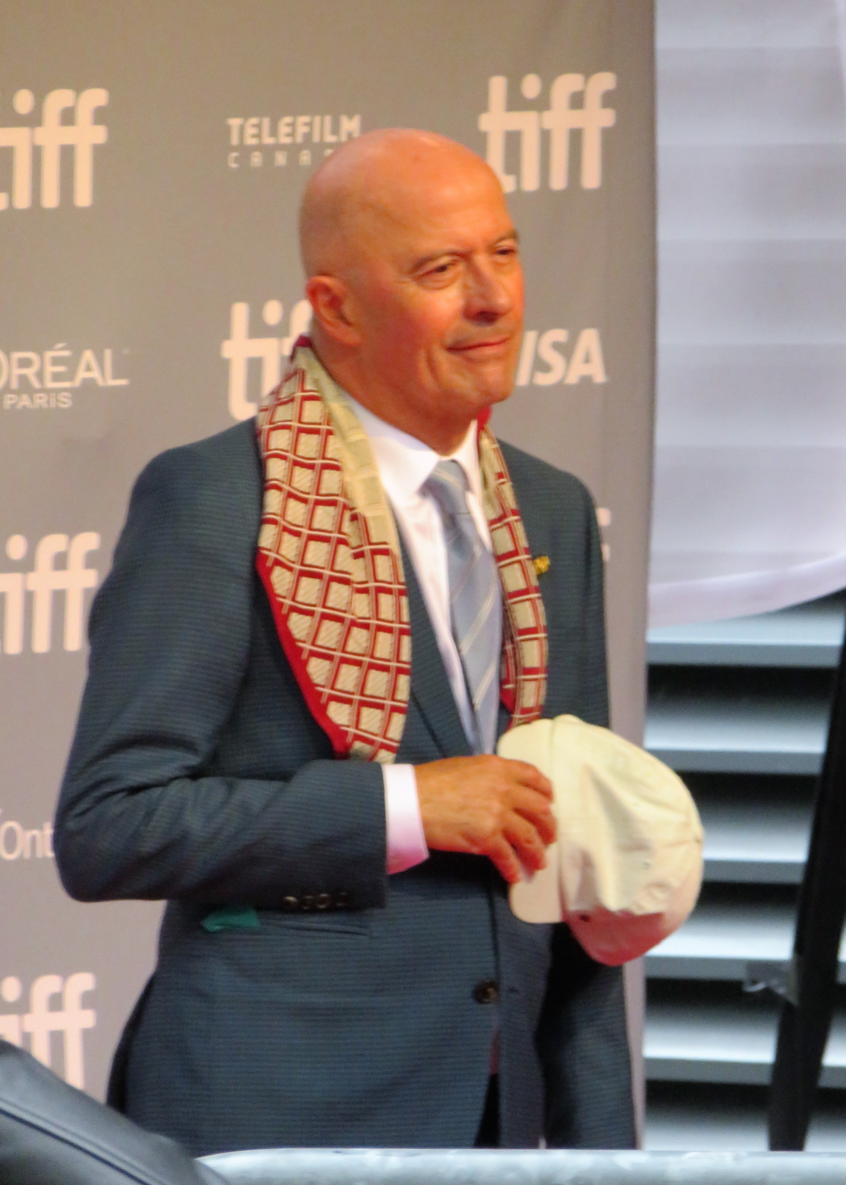 Jacques Audiard at the press conference of Sisters Brothers, 2018 Toronto Film Festival.